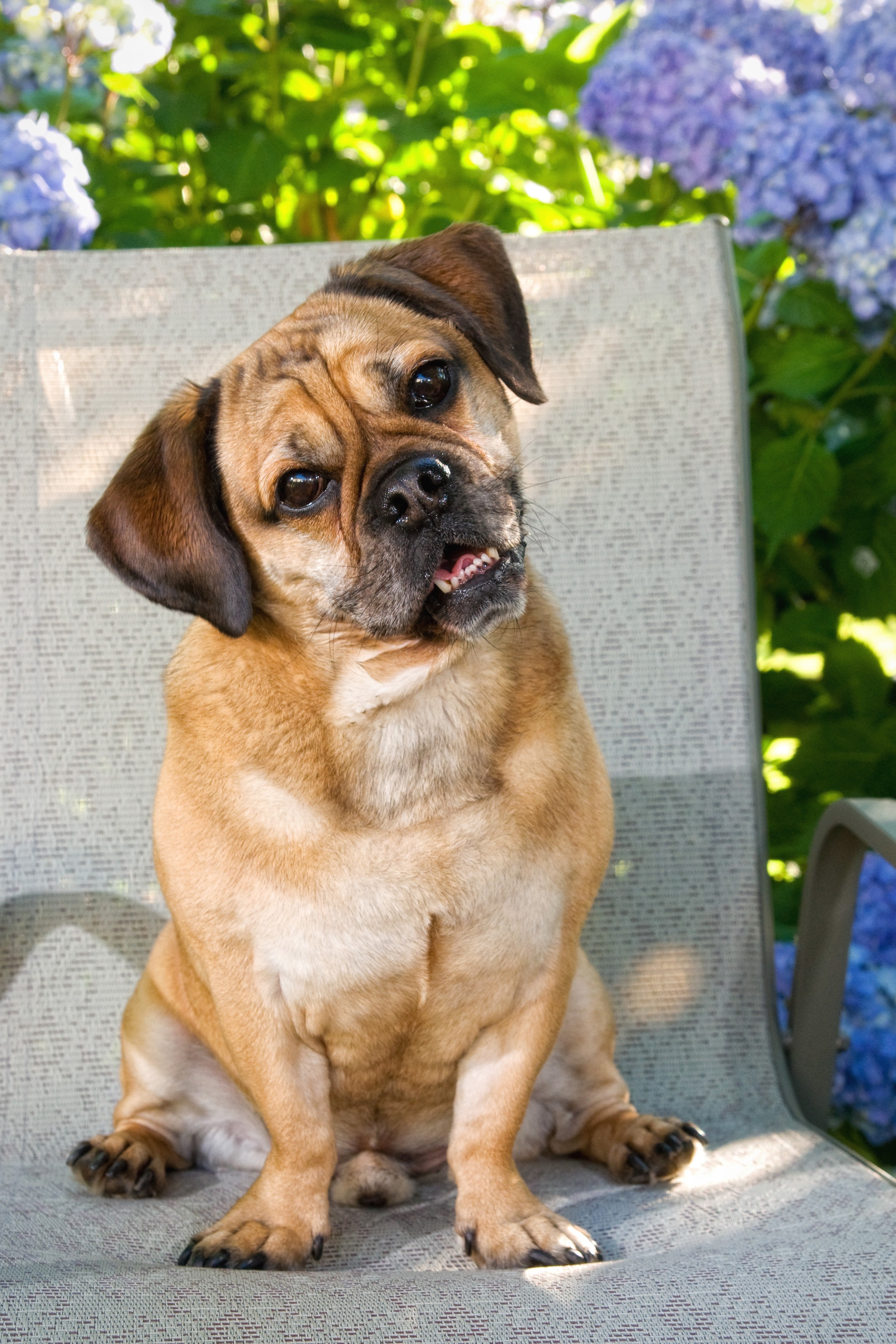 A healthy, happy, adult puggle